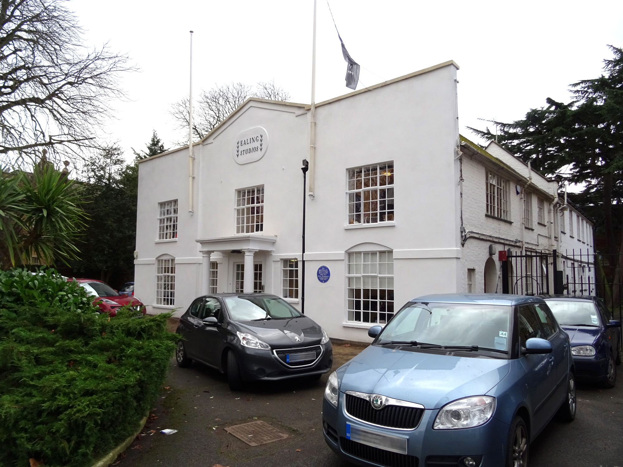 White Lodge, Ealing Film Studios, Ealing Green, Ealing, London W5 5EP, London Borough of Ealing. Blue plaque reads "Sir MICHAEL BALCON 1896-1977 Film Producer worked here 1938-1956"